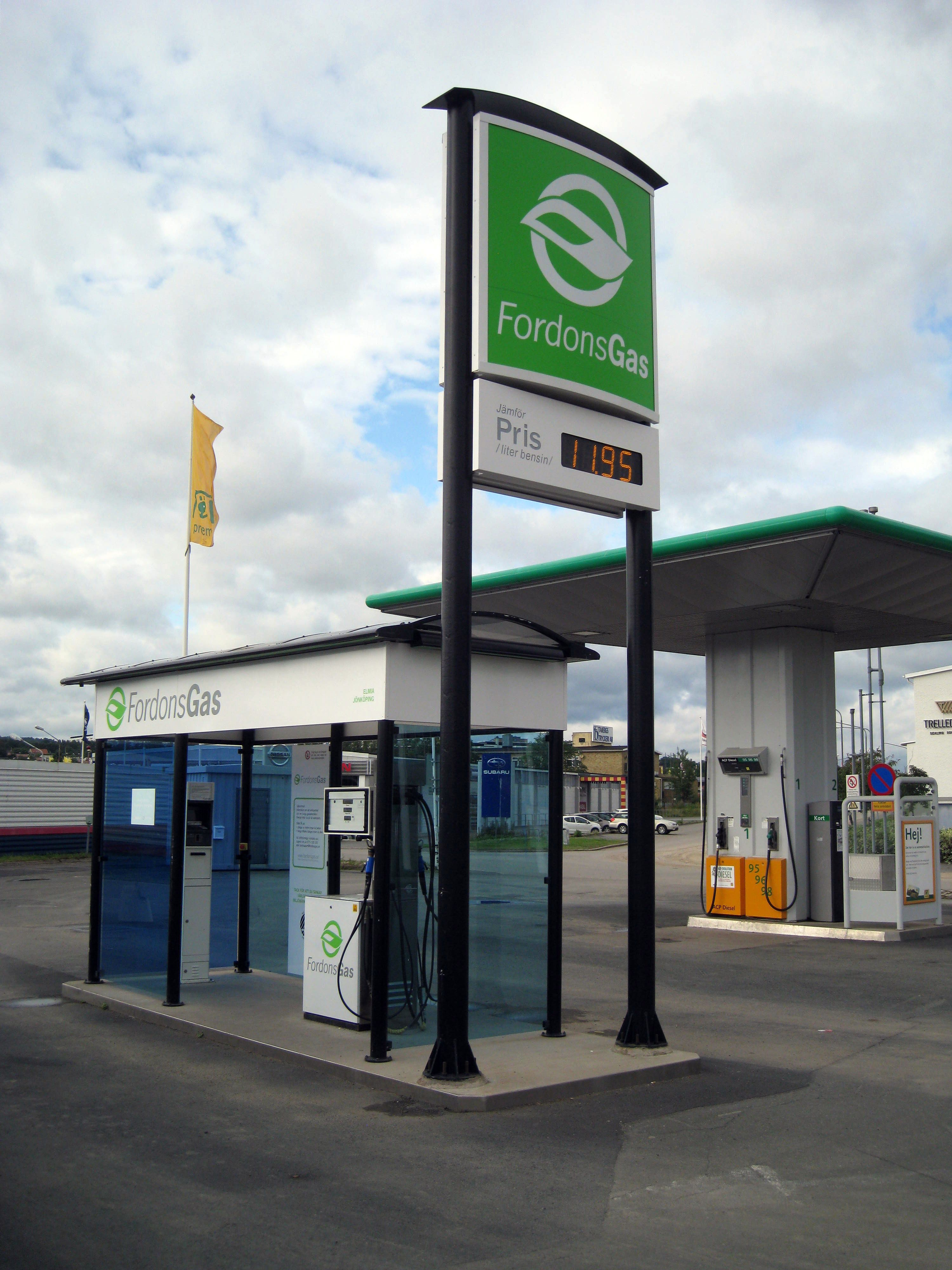 FordonsGas natural gas & bio gas station in Jönköping, Sweden (July 2011)